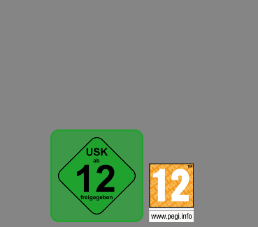 Size comparison of new USK and new PEGI- Logo, same scale on a Nintendo DS background. PEGI block under PEGI logo ist on most covers white. USK block is 3,5x3,5 cm, 4,7 cm diagonally.